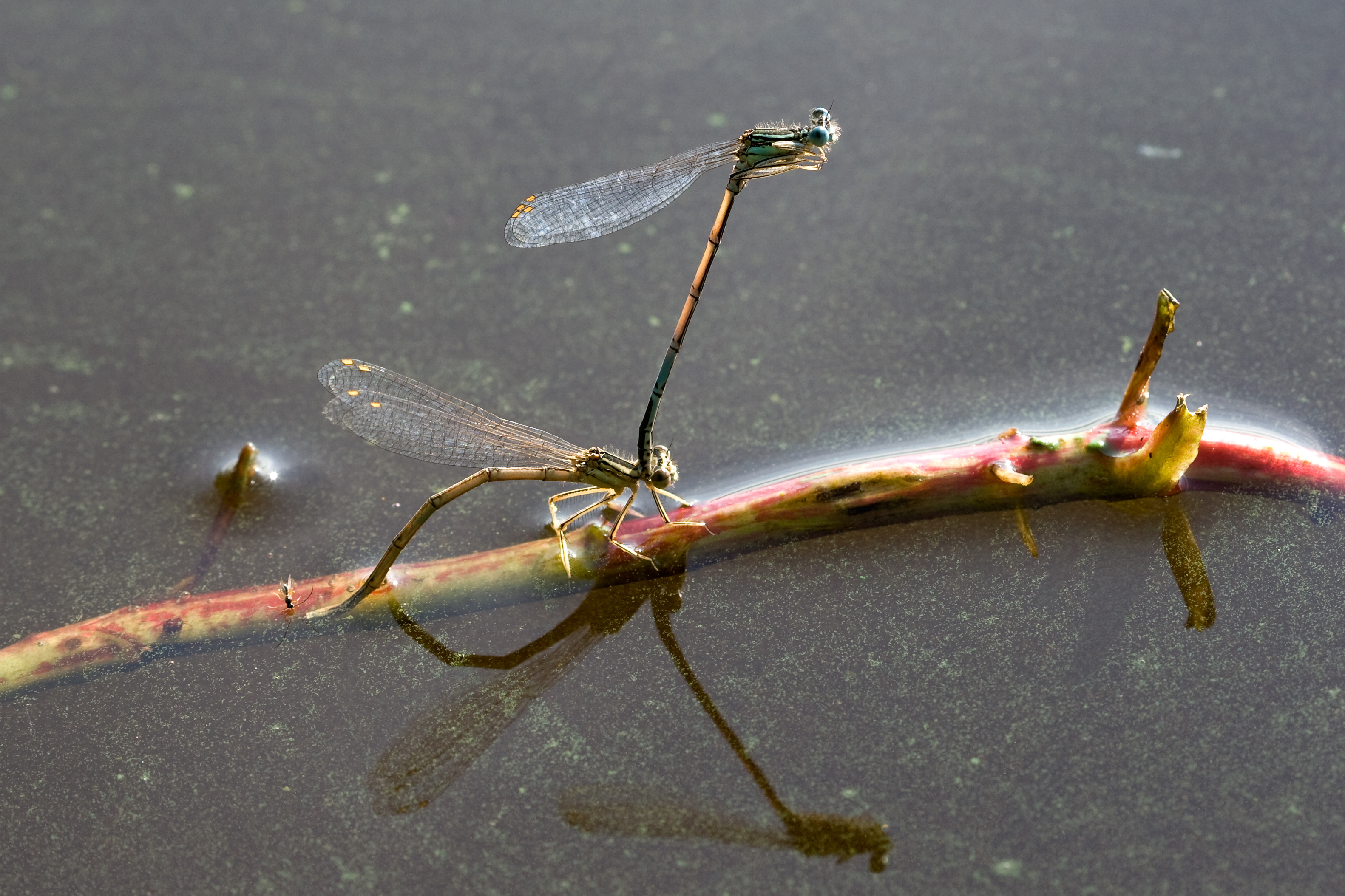 Oviposition of the White-legged Damselfly (Platycnemis pennipes) at the Halemer See, northern Lower Saxony, Germany.